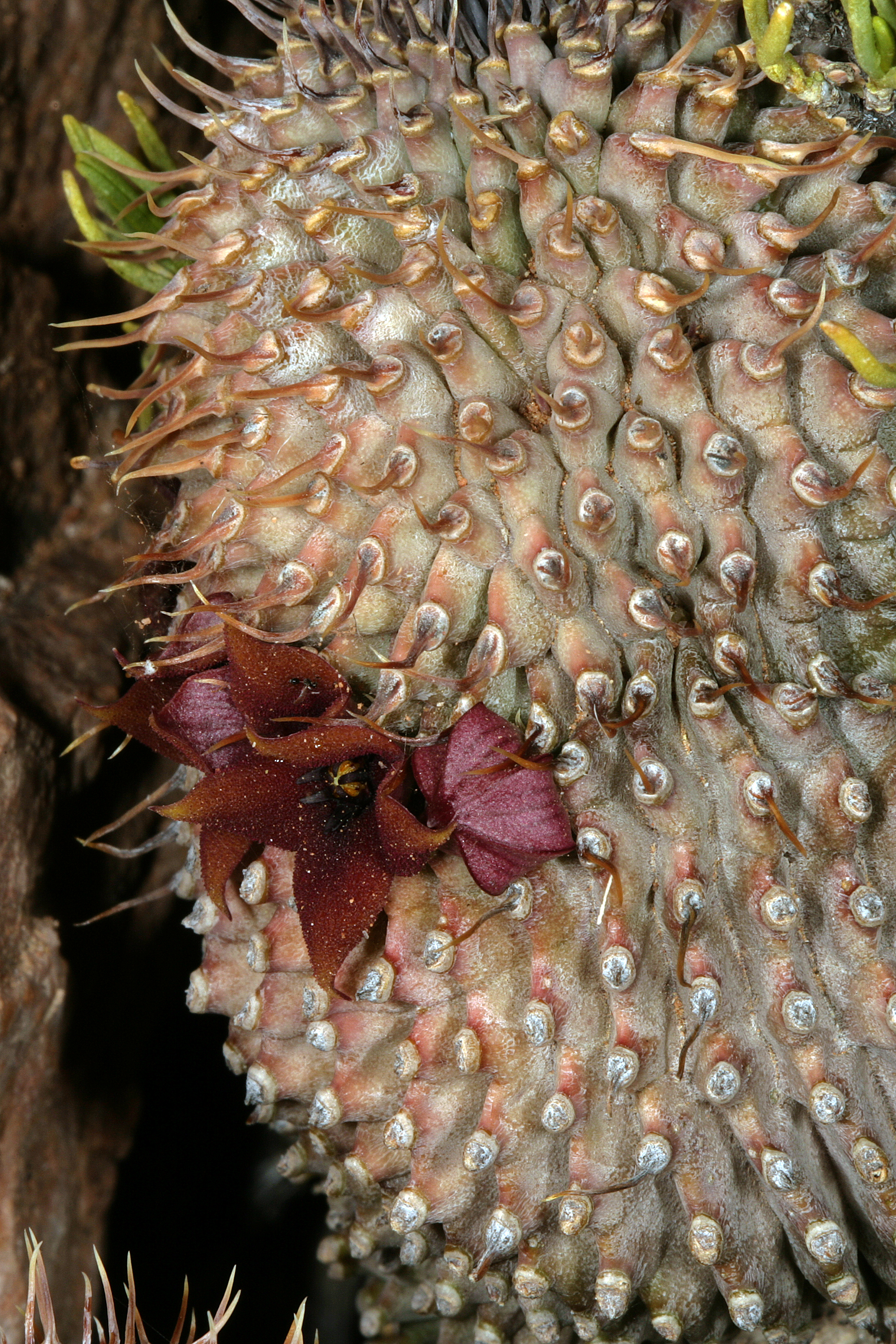 Hoodia pilifera subsp. pilifera, flowers; Farm Drielingskloof, Laingsburg, Western Cape, South Africa